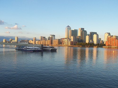 This is a photograph of Greenland Dock Pier in Surrey Quays, London, UK, with Canary Wharf visible across the River Thames in the background. This photograph was taken by me, Ben Lund, on August 29 2005.